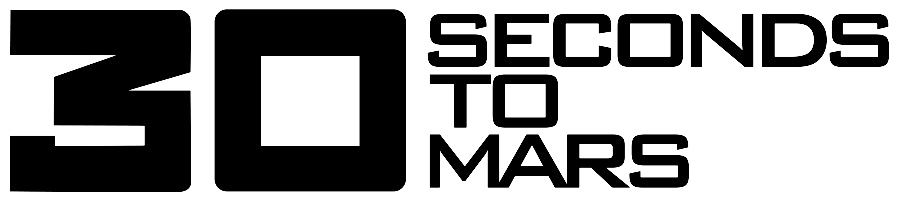 30 Seconds to Mars Logo